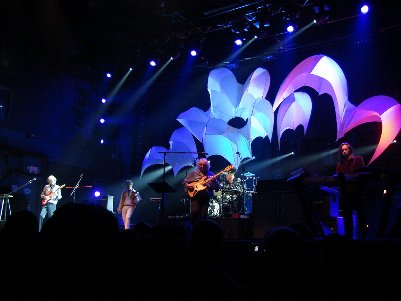 Yes on stage at Lifestyles Pavilion in Columbus, Ohio